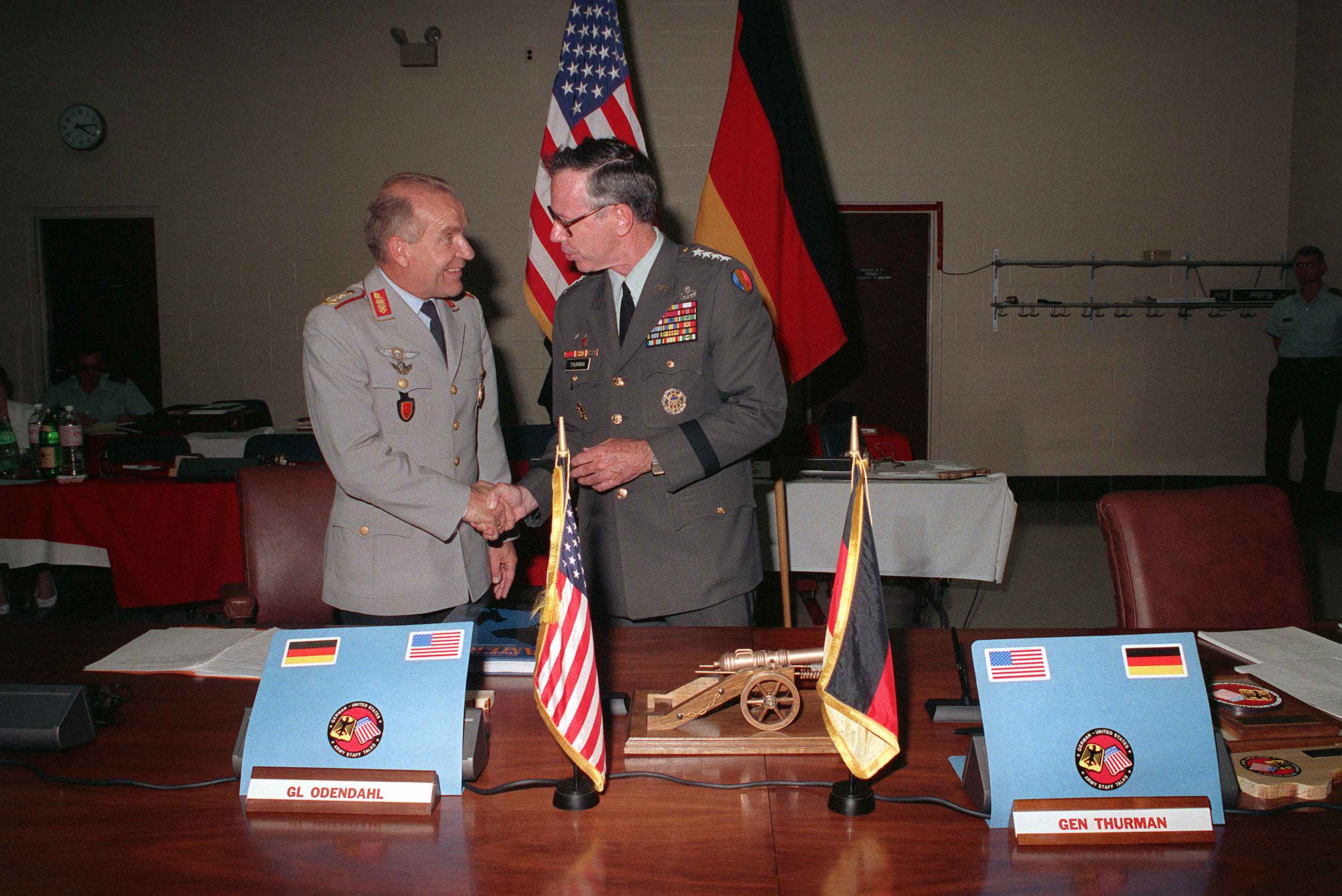 General Maxwell R. Thurman, commander-in-chief, U.S. Southern Command, welcomes Liutenant-General Wolfgang Odendahl of the West German army to Skidgel Hall in Fort Knox.